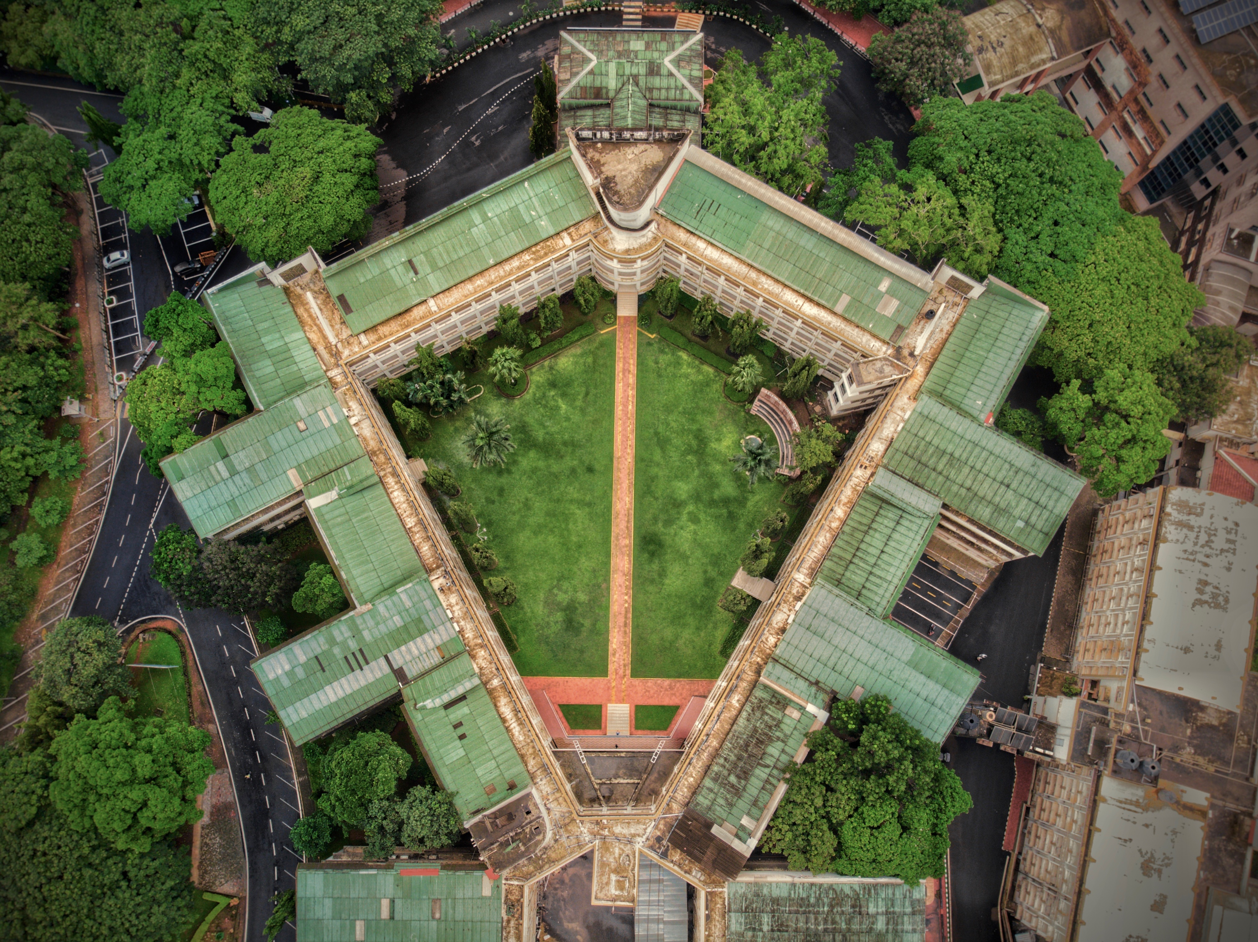 Aerial shot of Academic Block 1 also known as Quadrangle.